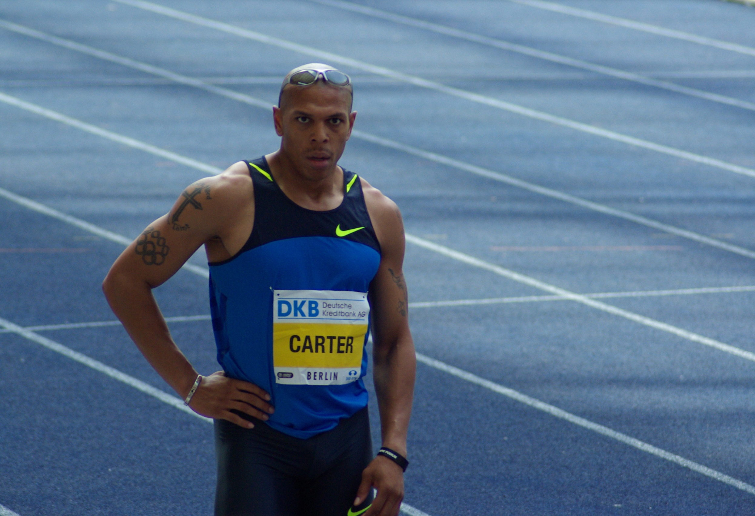 James Carter on ISTAF meeting, Berlin, 2008